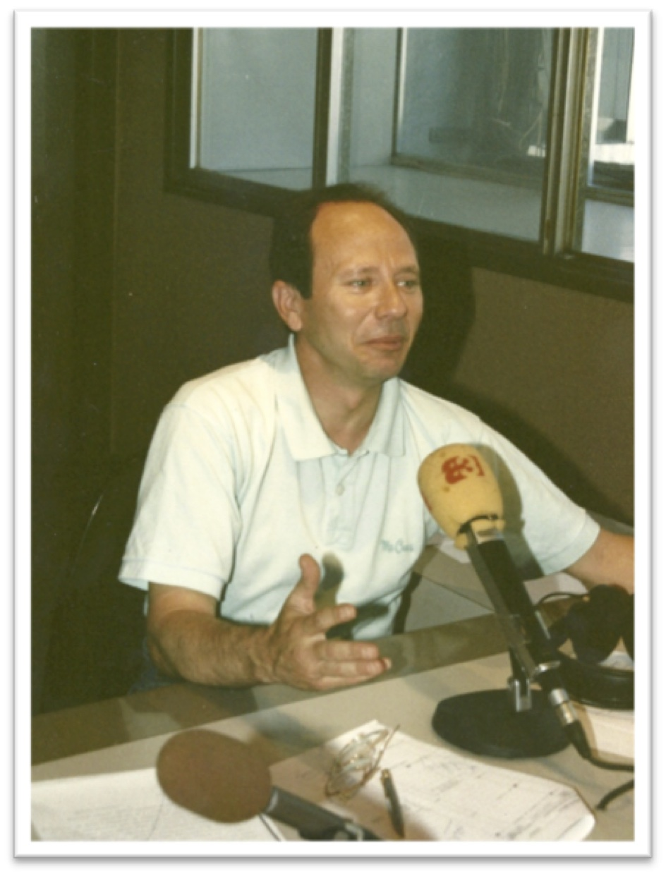 Pepe Plana en la radio